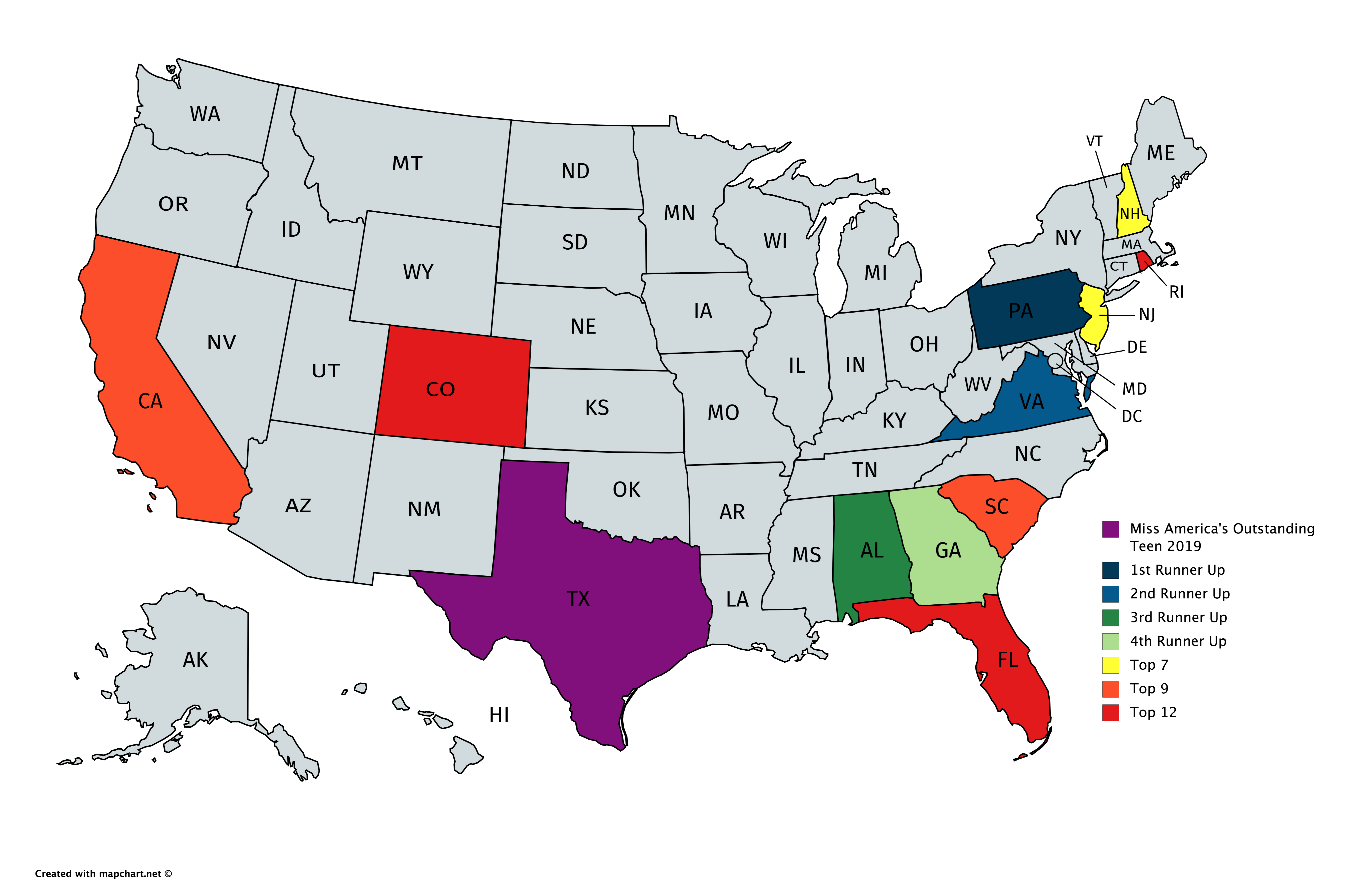 Placements of Miss America's Outstanding Teen 2019 on a map